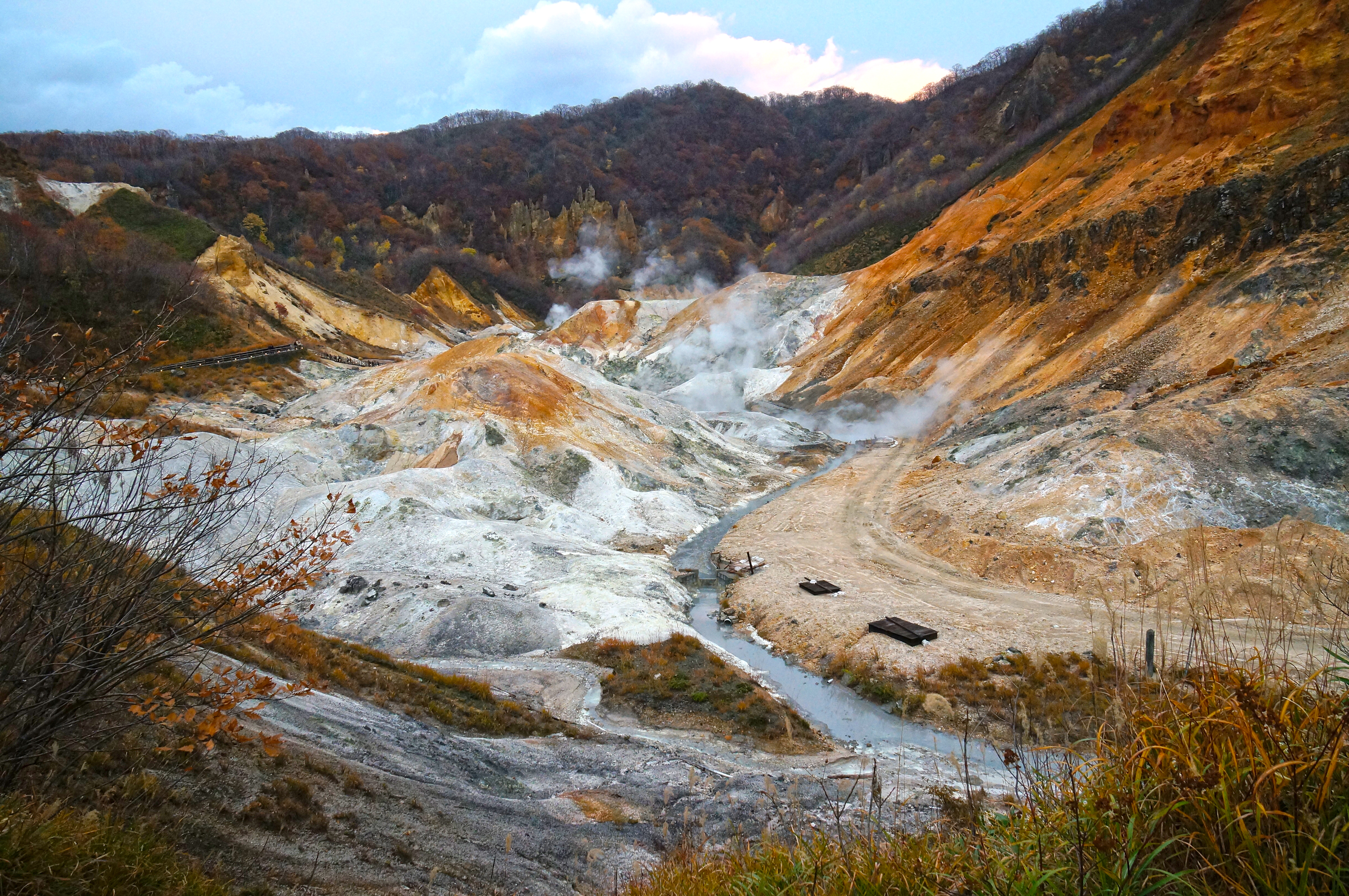 At Jigokudani in Noboribetsu Onsen, Noboribetsu, Hokkaido prefecture, Japan.